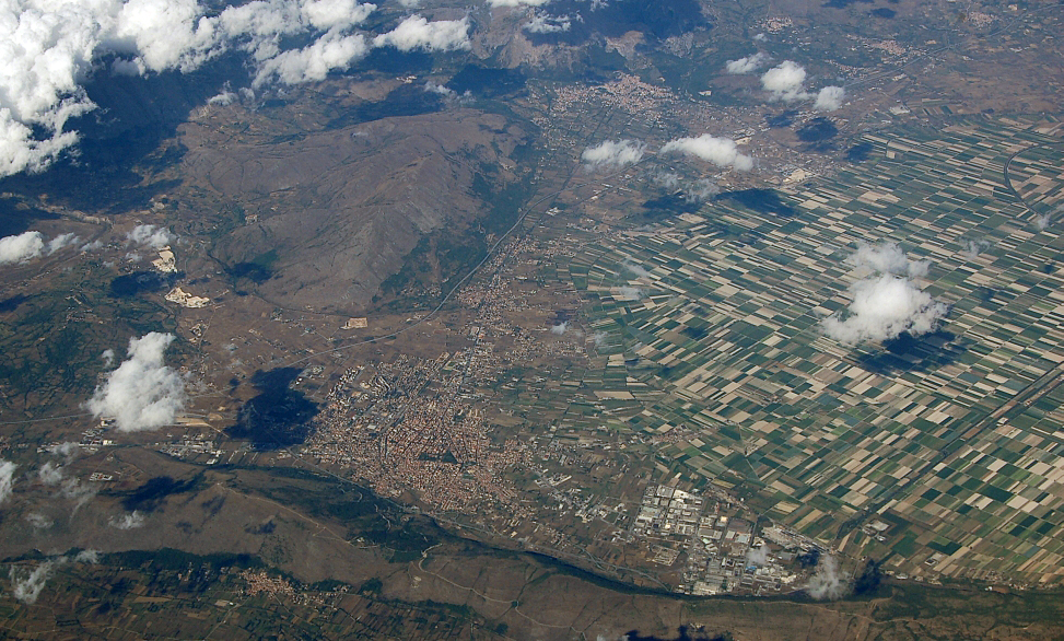 Aerial photographs